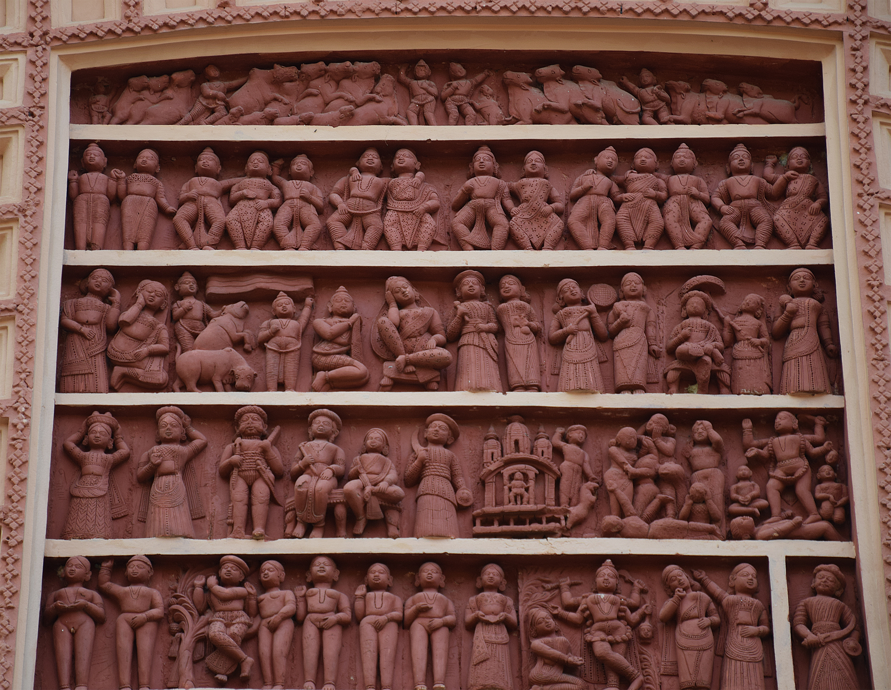 Nava Ratna Raghunatha Temple at Alangiri under Purba Medinipur district in West Bengal. The temple was built in 1810. It has a huge number of exquisite terracotta panels on its walls.